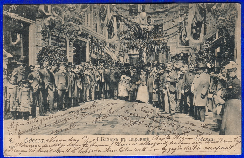 Grand openning of Odessa Passage. 1900.